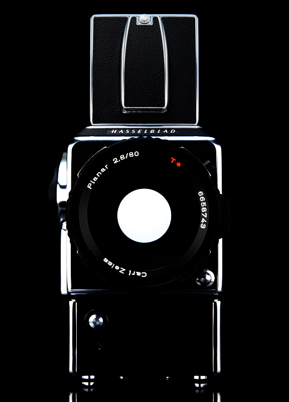 Hasselblad 553 ELX with Carl Zeiss 80mm f/2.8 CF T* Lens